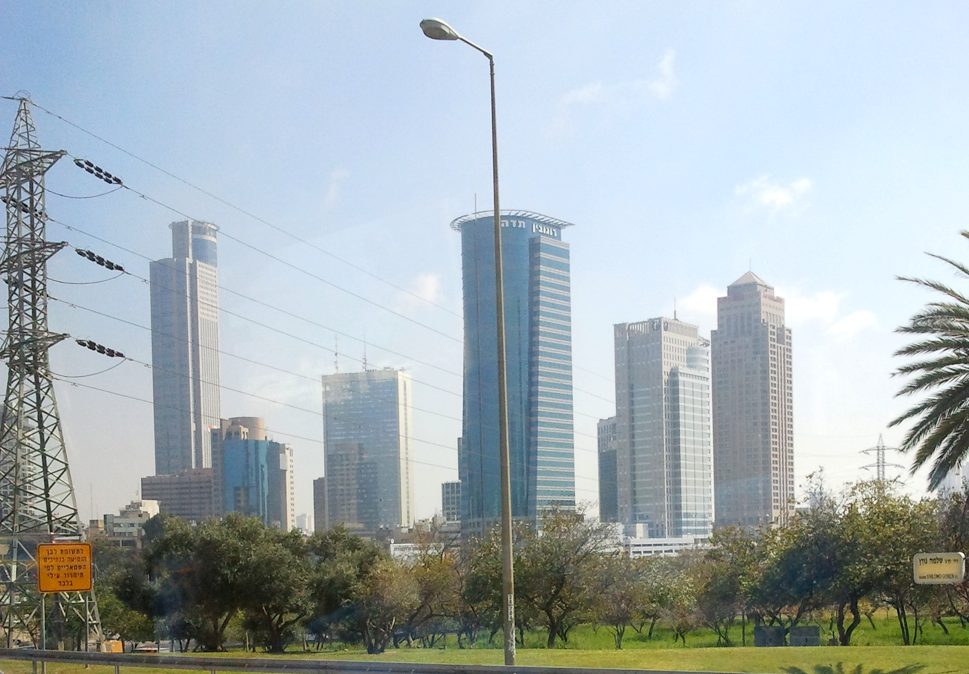 Diamond Exchange District , Ramat-Gan , Israel 22/03/2012